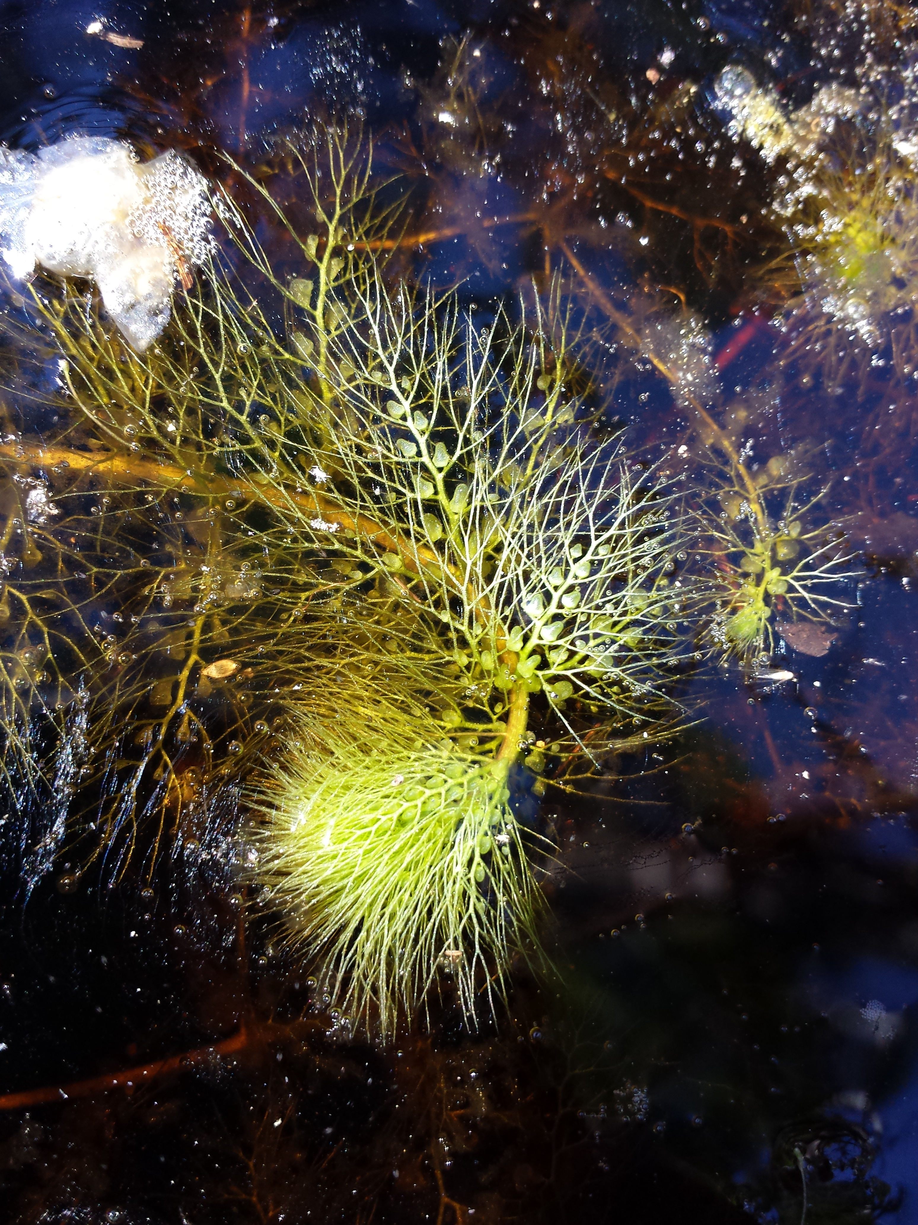 Leaves with interceptor bladders Taxon: Utricularia australis (sensu Fischer et al. EfÖLS 2008 ISBN 978-3-85474-187-9) Location: Winkelauer pond near Heidenreichstein, district Gmünd, Lower Austria - ca. 600 m a.s.l. Habitat: standing, acescent moor pond